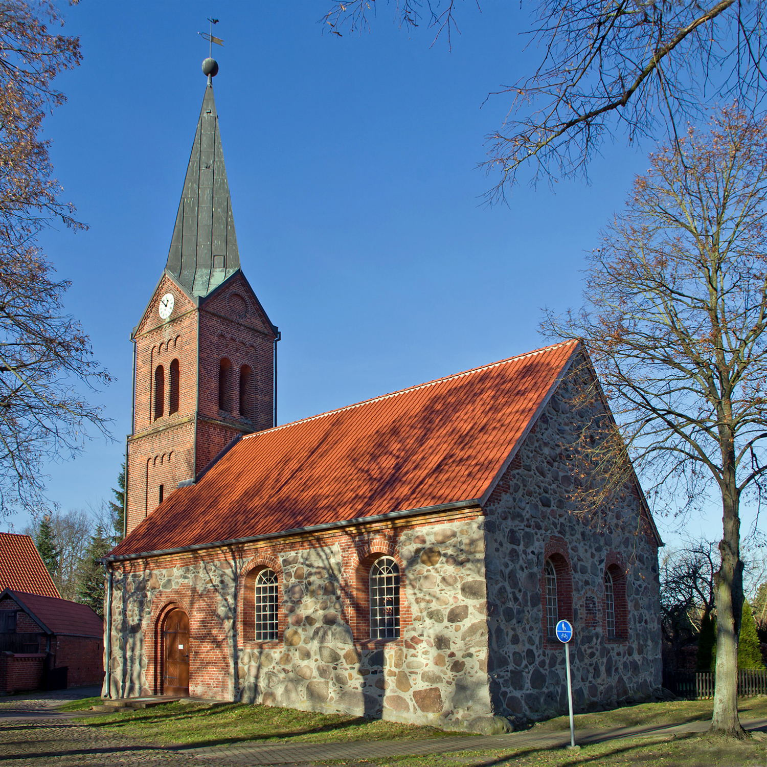 Chapel of the village Schweskau (district Lüchow-Dannenberg, northern Germany).